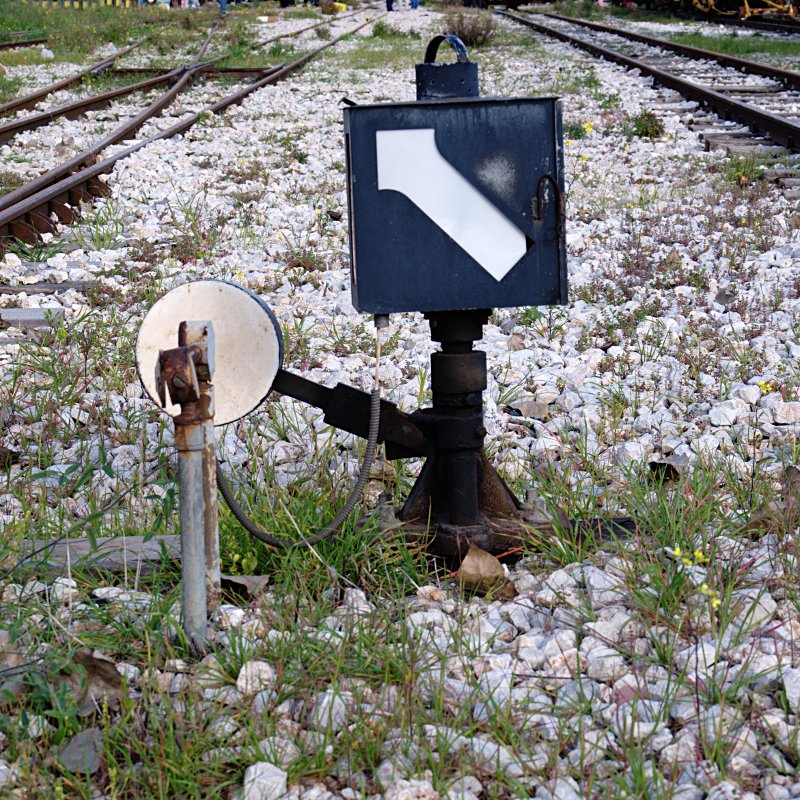 GREECE: Points lever with points position indicator (Signal 31c) at Agioi Anargyroi train station (formerly Kato Liosia station).